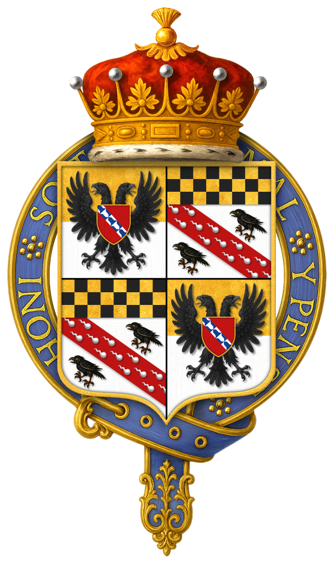 Garter-encircled coat of arms of William Pleydell-Bouverie, 7th Earl of Radnor, KG, as displayed on his Order of the Garter stall plate in St. George's Chapel.